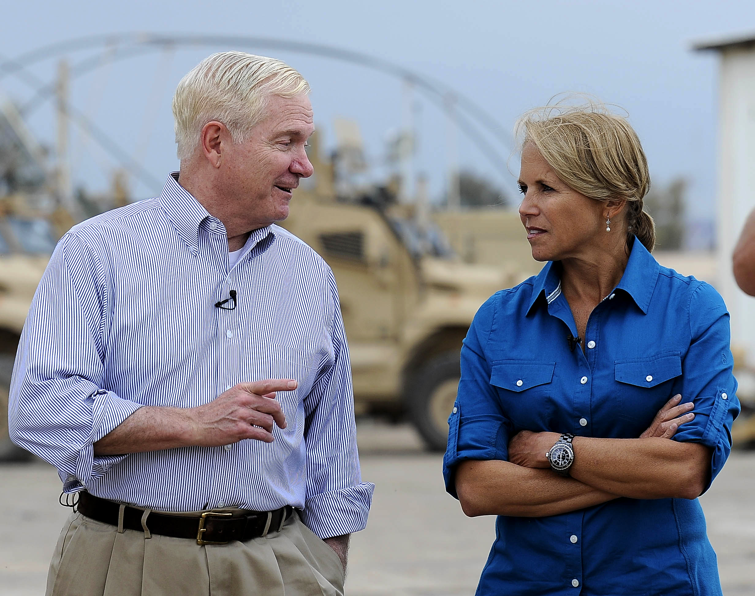 U.S. Defense Secretary Robert M. Gates talks with "CBS Evening News" anchor Katie Couric during an interview for her show in Mosul, Iraq, April 8, 2011.